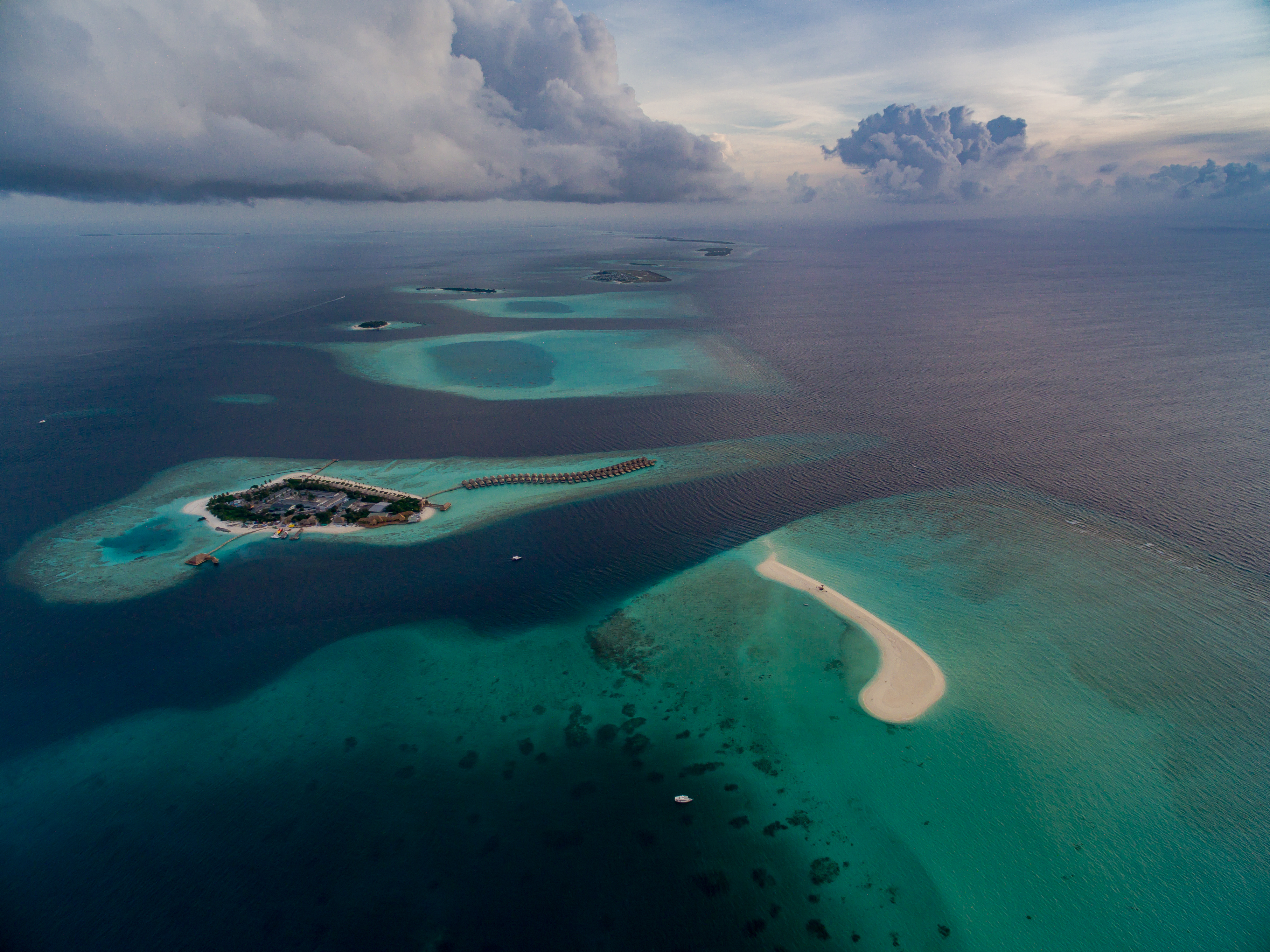 Maledives Atoll Lhaviyani